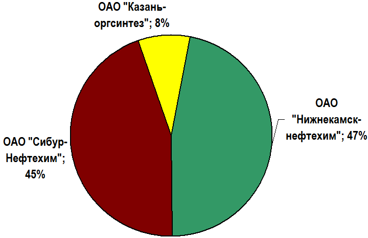 Russian produsers of ethylene oxide